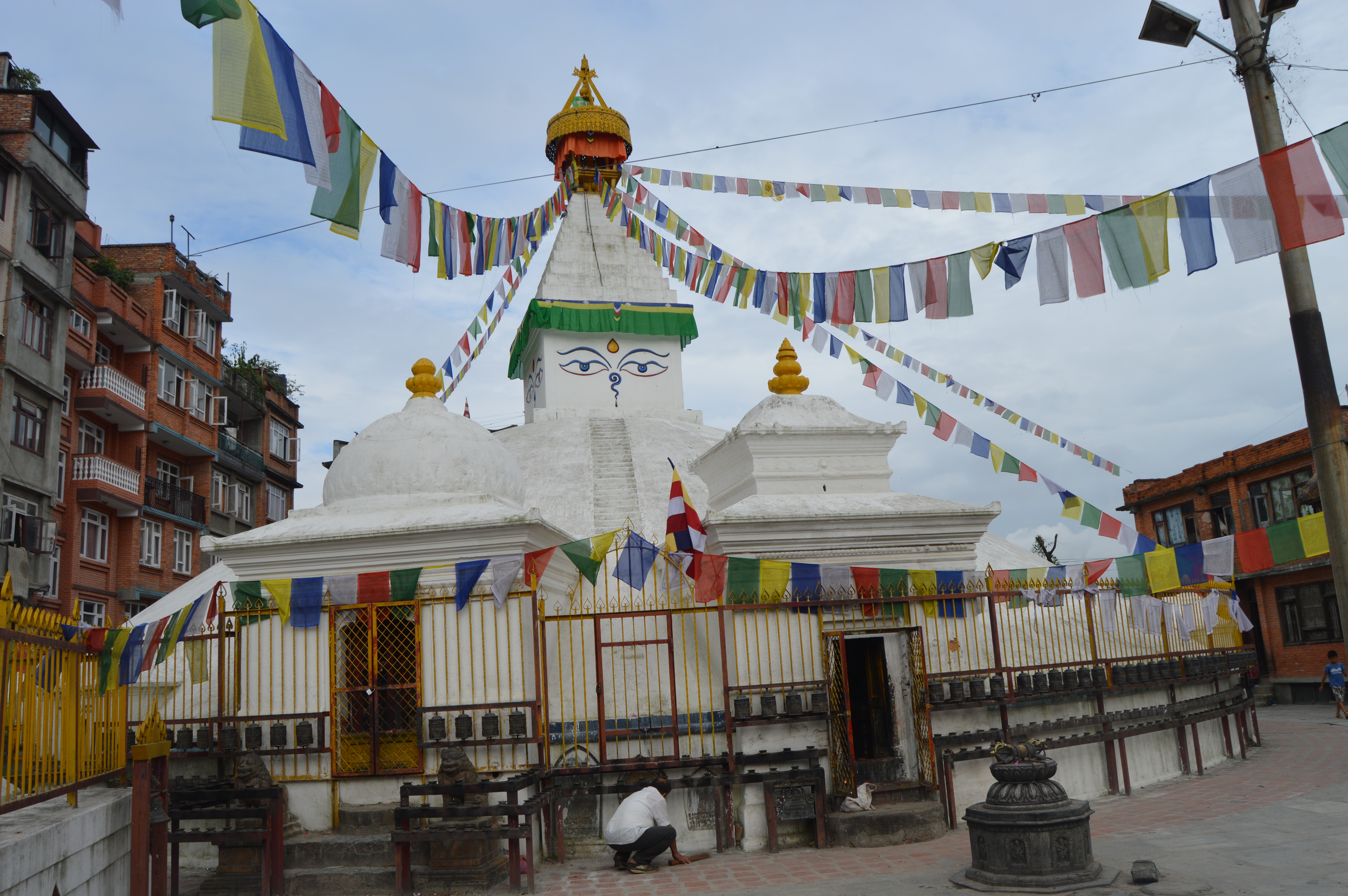 Ashoka Stupa